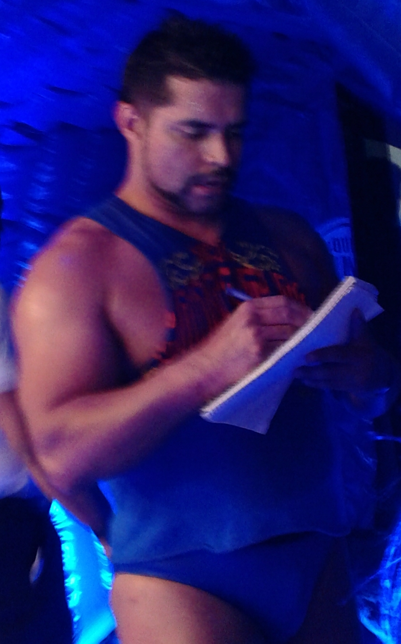 Máscara Año 2000, Jr. during the 2012 ¿Quién Pinta para la Corona? held by Asistencia Asesoría y Administración on August 26, 2012 at Nave Lewis of Fundidora park in Monterrey, Nuevo León, Mexico.